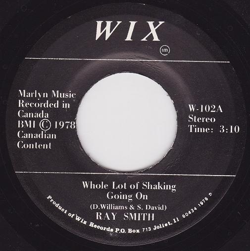 Ray Smith on Wix Records W-102-A